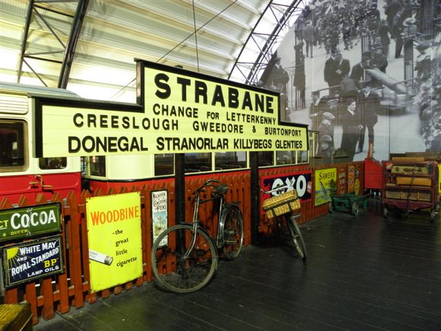 The platform at Strabane, Cultra. Pictured at the transport station